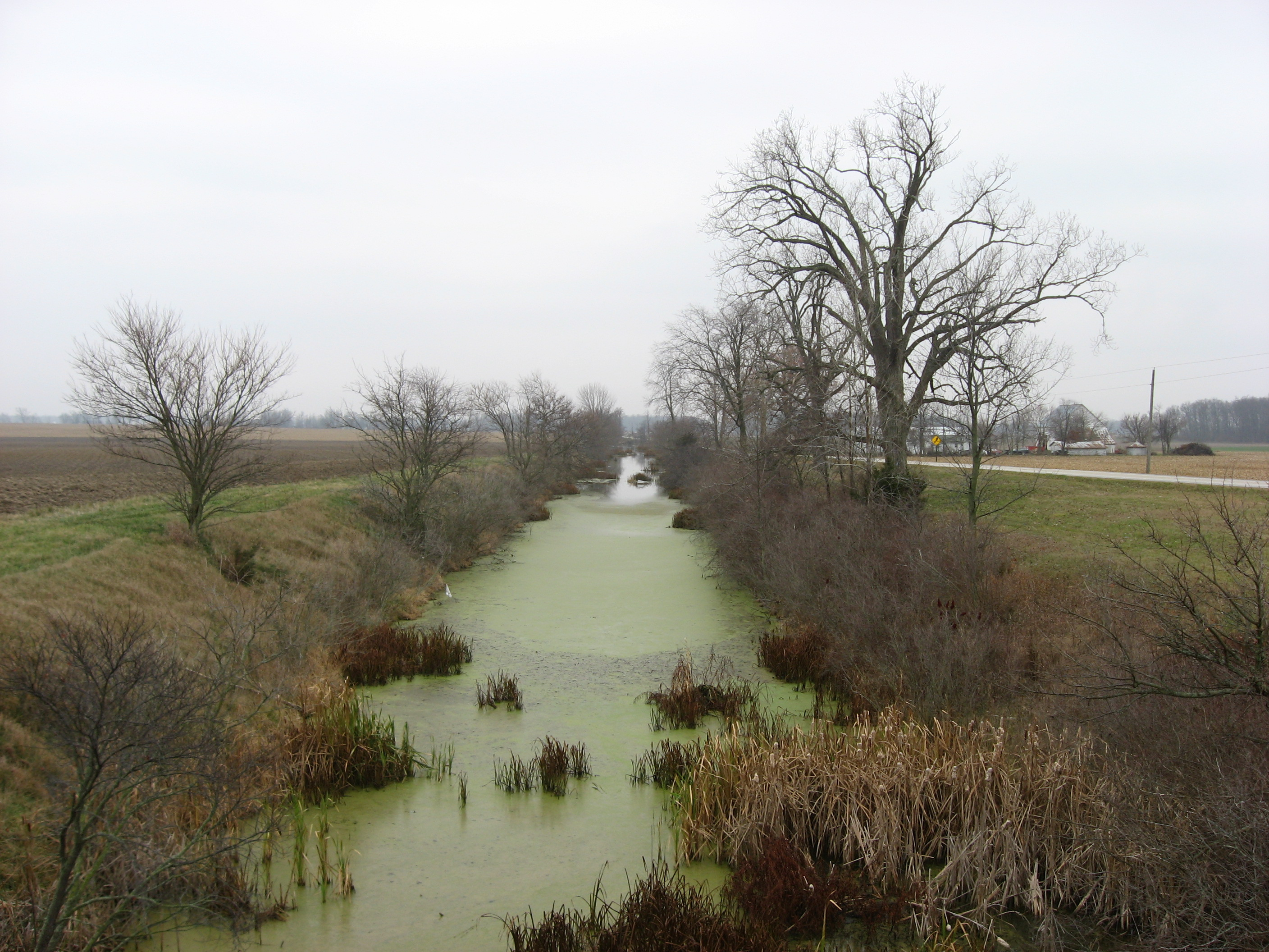 Southward along the Miami and Erie Canal from the Deep Cut Road bridge in Salem Township, Auglaize County, Ohio, United States. Deep Cut Road is officially the southern boundary of the Miami and Erie Canal Deep Cut. Here the canal continues through a ridgeline, more than fifty feet below the original surface at certain locations, and far more significantly than in the section pictured.